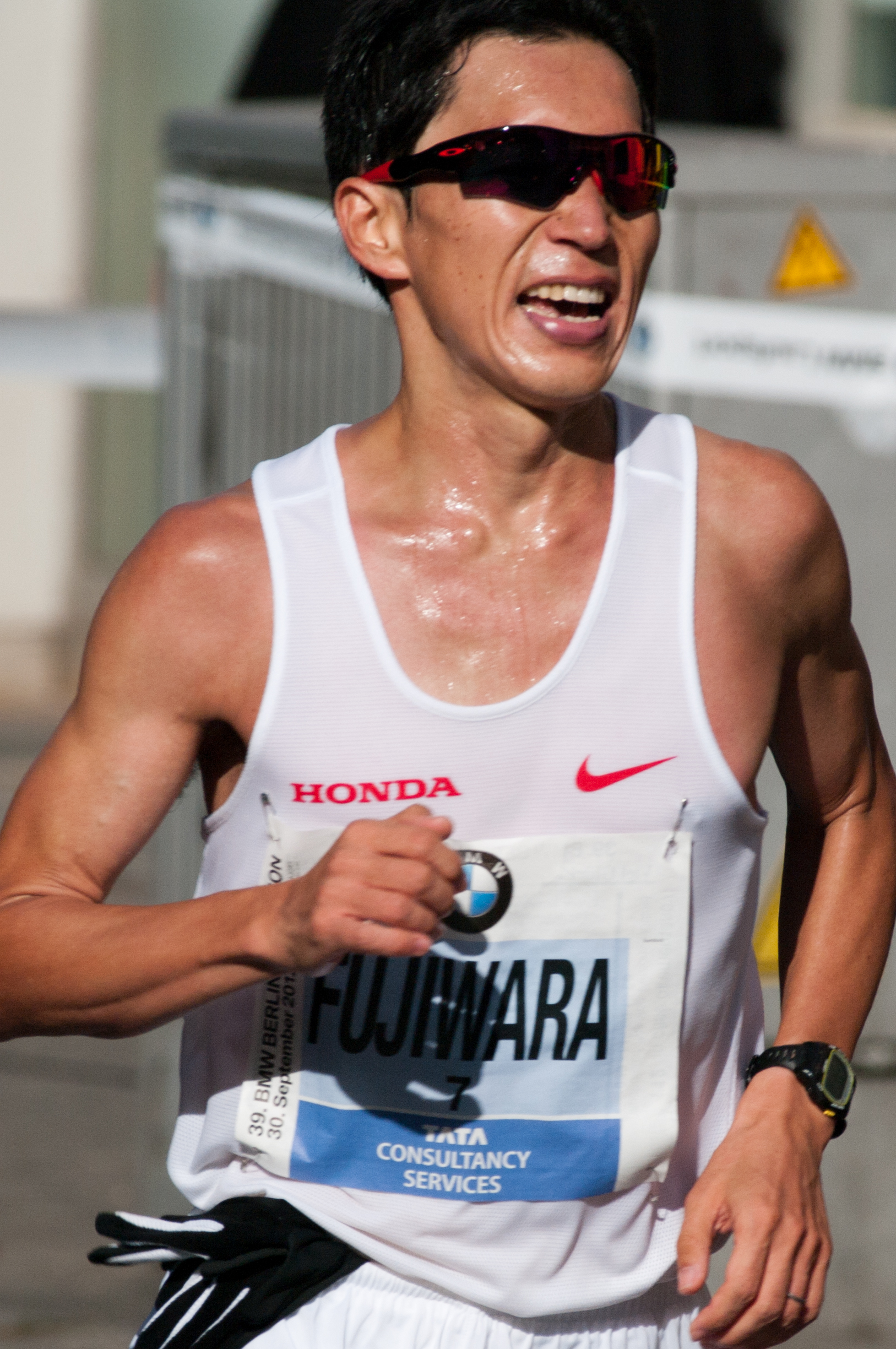 Elite runners at the Berlin Marathon 2012. Here on Bülowstraße, between Kilometers 36 and 37.